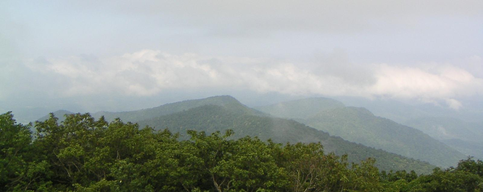 The North Georgia mountains in the general area of Helen, Georgia. Picture taken in 2006, by myself. Roman Babylon 00:22, 30 September 2007 (UTC)